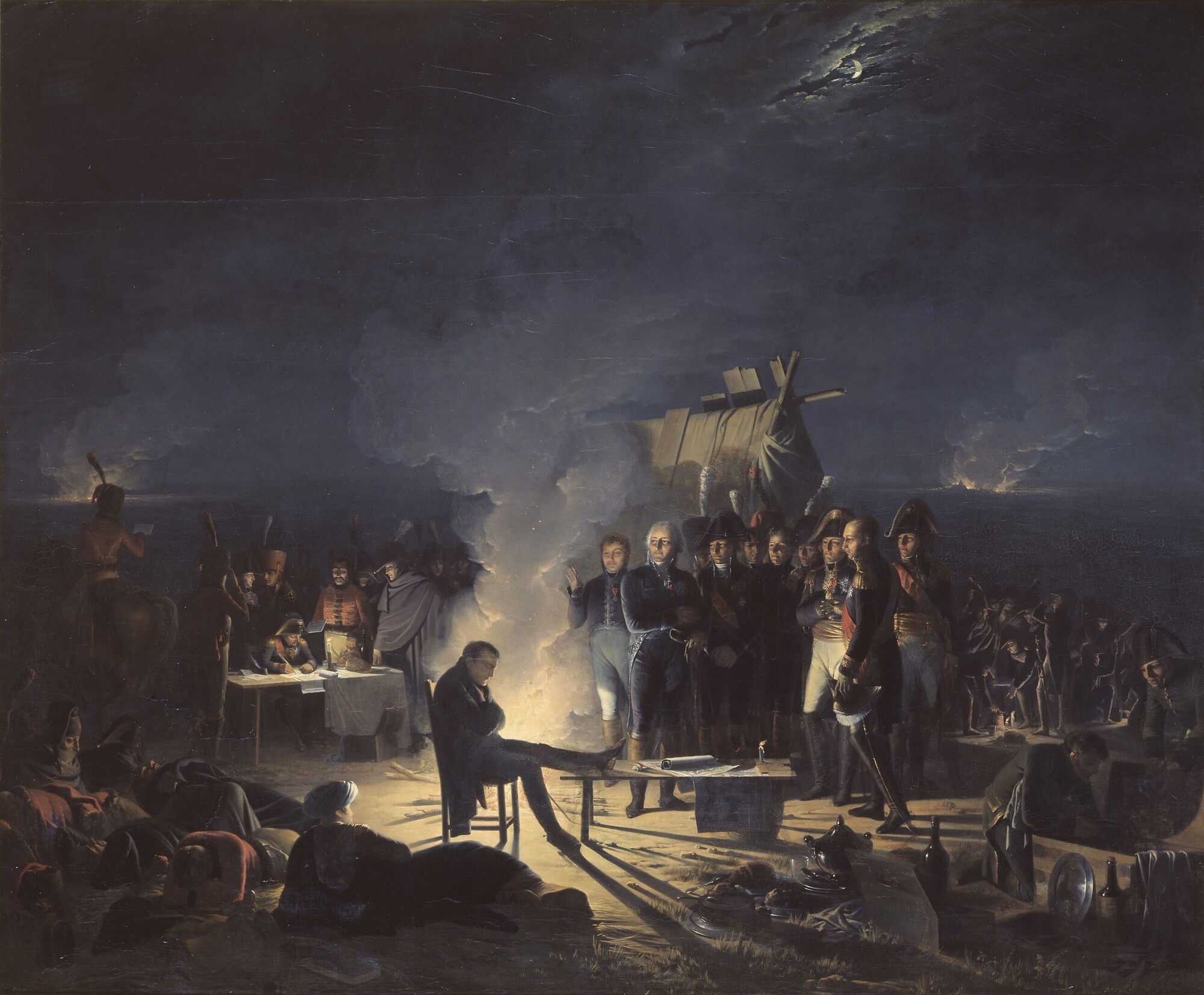 "Bivouac de Napoléon sur le champ de bataille de Wagram" - Napoleon at his bivouac on the 5th of July 1809, before the second day of the battle of Wagram. Around the campfire are Marshals and General Staff Officers